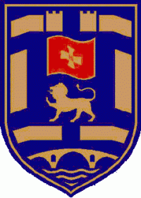 Coat-of-arms of Niksic (Montenegro)